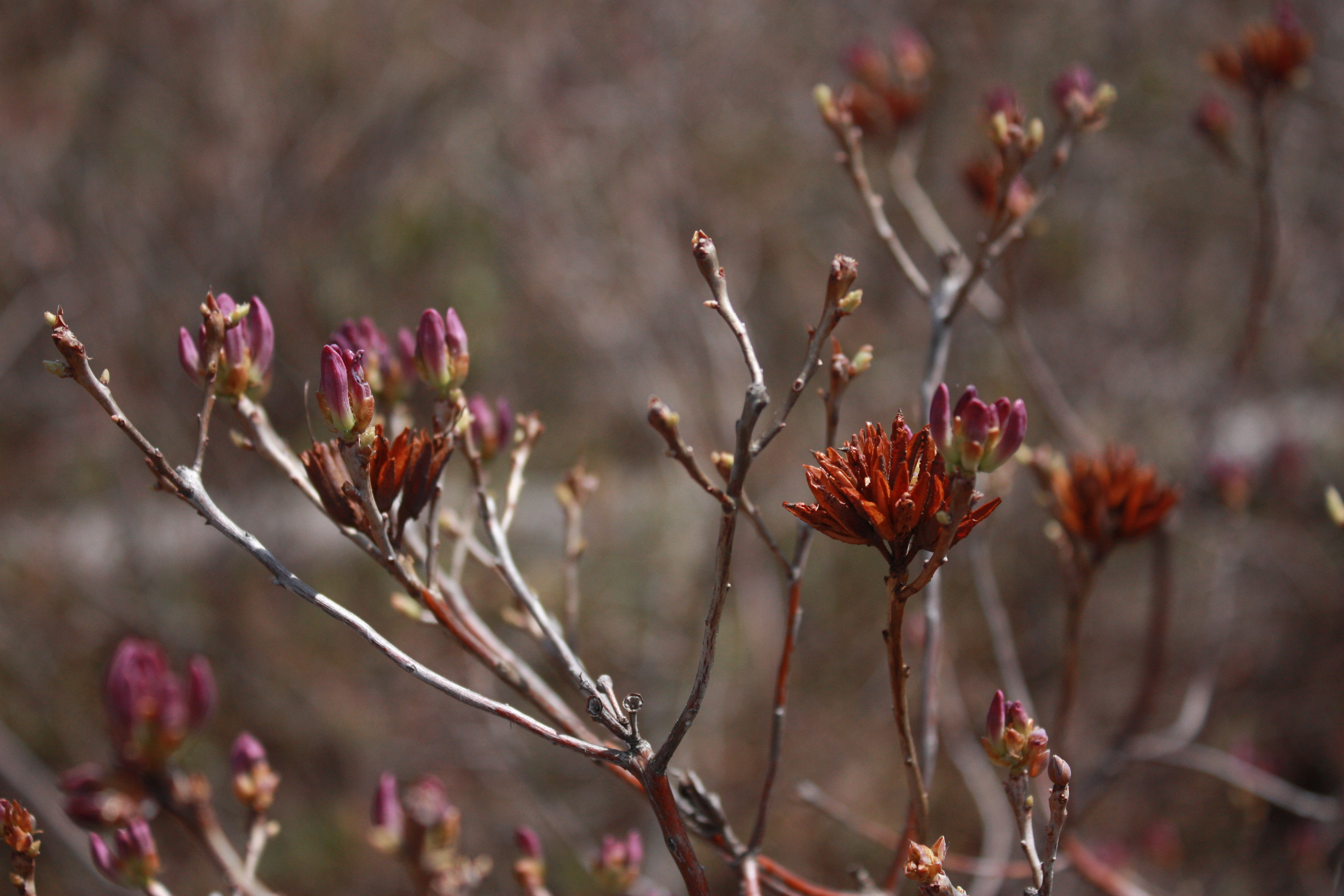 Rhododendron canadense flowers, in the Grande plée bleue peatland, in Saint-Charles-de-Bellechasse, Québec. The flower buds yet to open appear in pink, and last year's seed cases are brown.